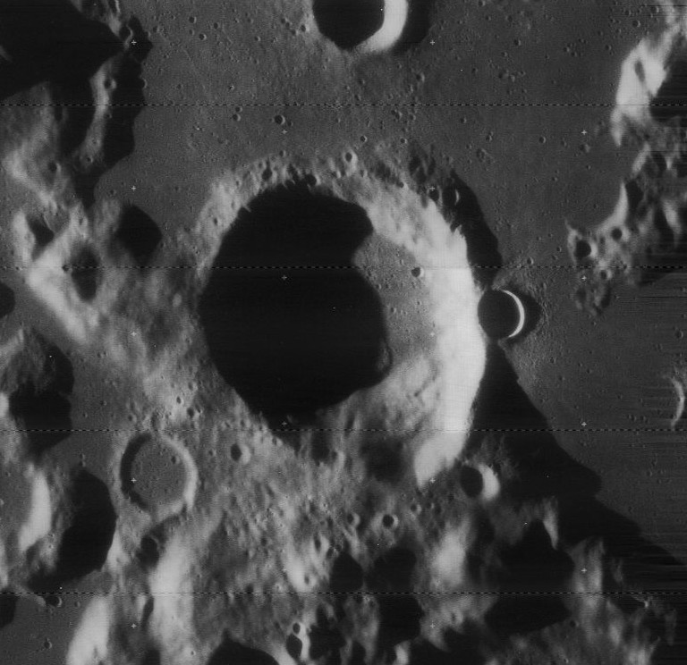 Oblique view of Eimmart, on the moon, facing west with north at top.